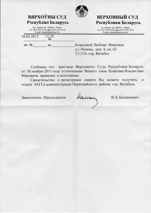 Notice sent to the mother of the excuted 2011 Minsk metro bombing perpetrator Vladislav Kovalyov